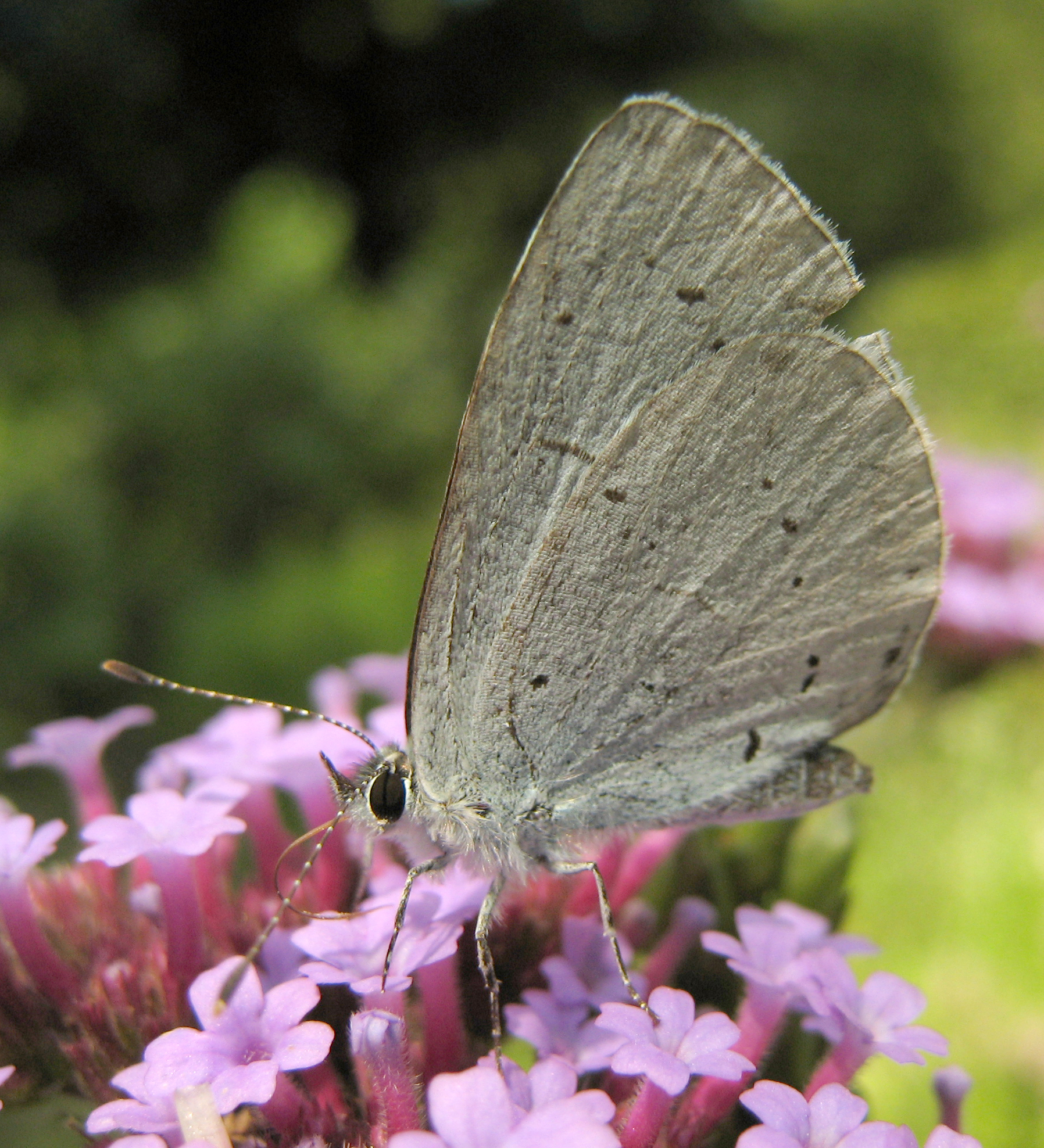 A Celastrina argiolus (Holly Blue). Location: Amstelpark, Amsterdam, Holland.